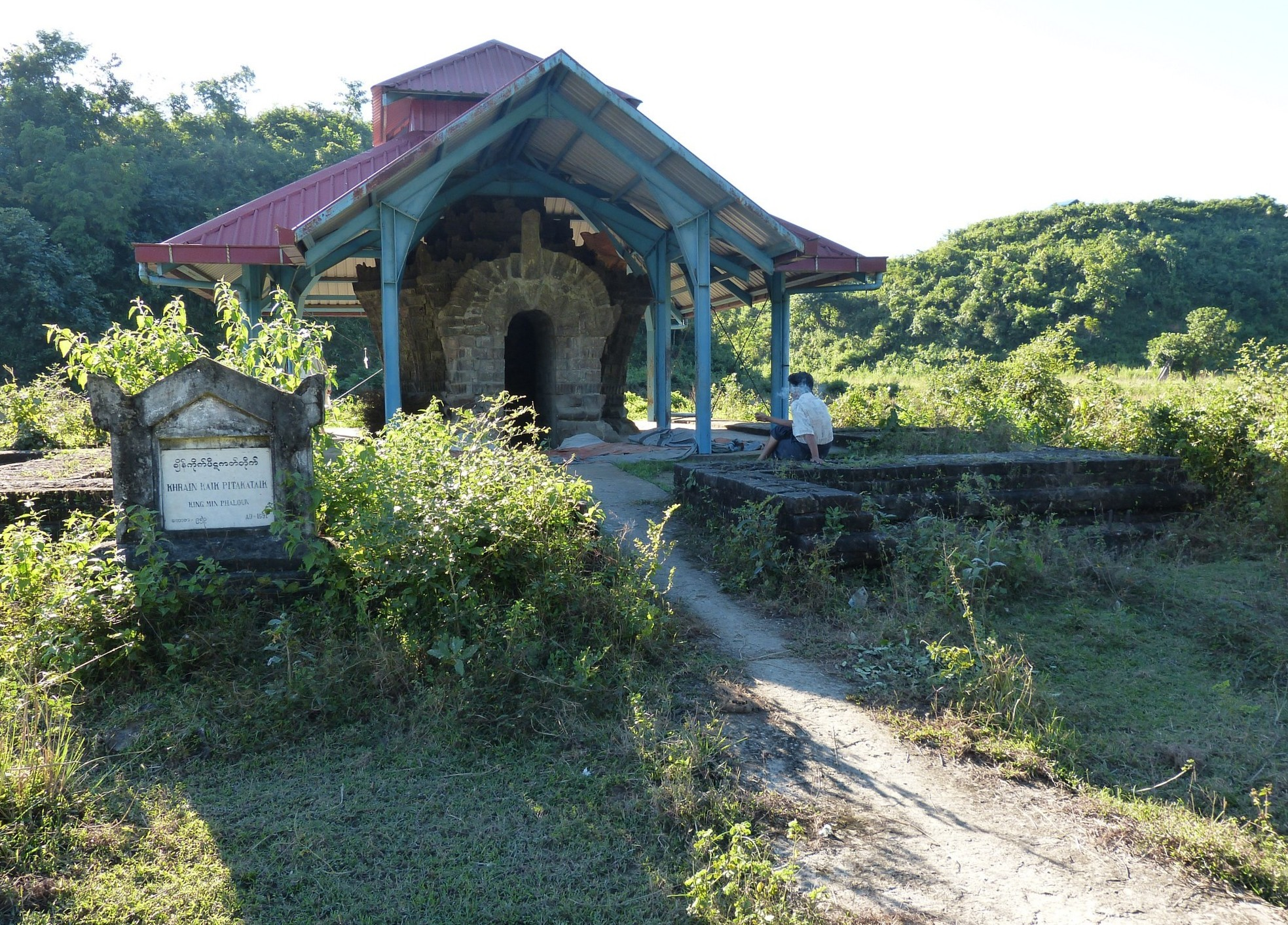 Mrauk U, Rakhine State, Myanmar